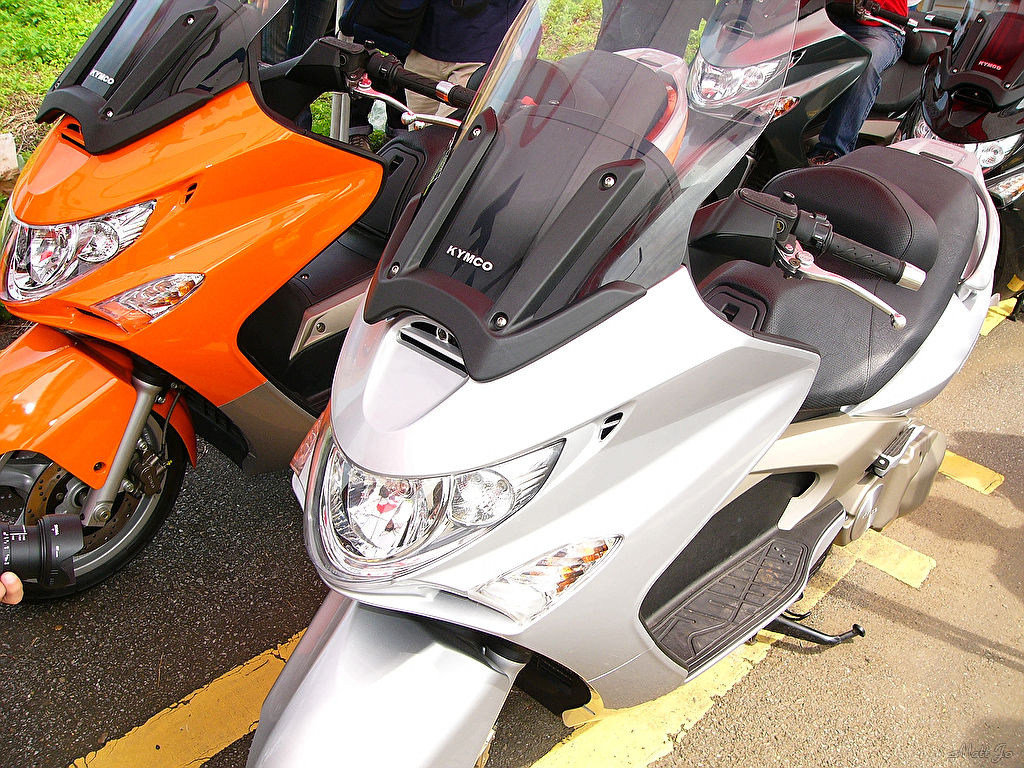 Kymco Xciting